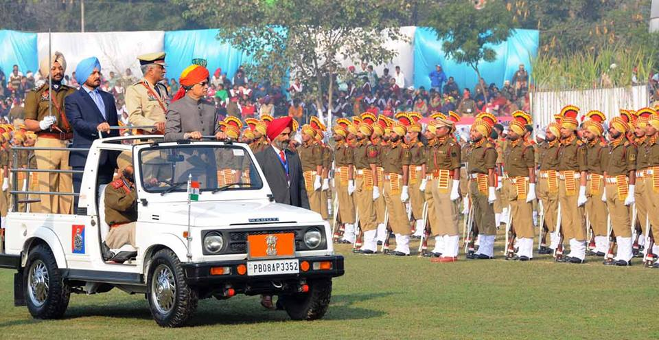 G.K.Singh accompanying Shivraj Patil,Governor Punjab while inspecting Guard of Honor